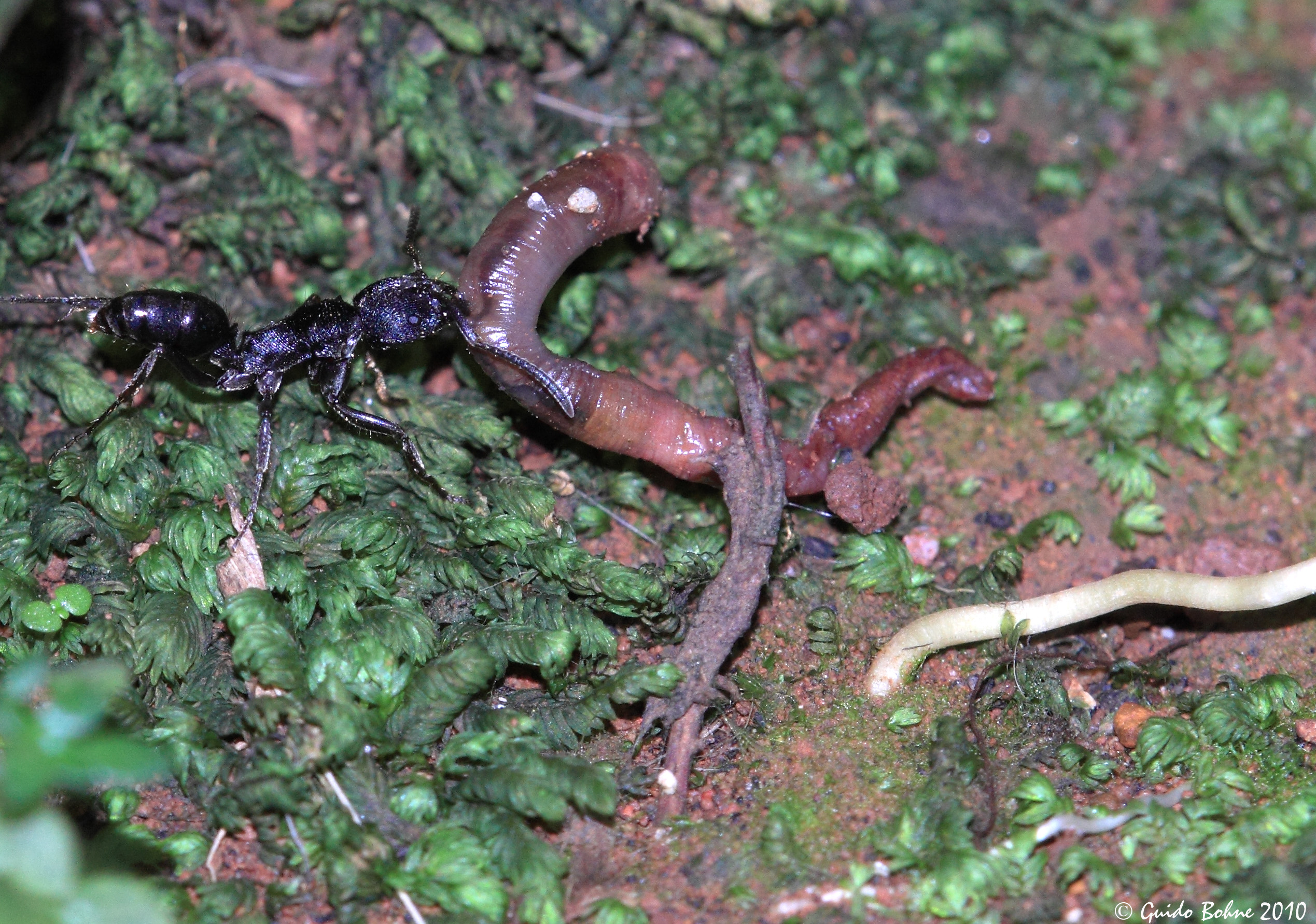 This rather big ant (12-13mm) came out of large hole in the soil; I newer saw more than one coming out. A constricted gaster (abdomen) is typical for the subfamily Ponerinae. These ants are not able to climb smooth surfaces like glass. They are rather passive and sting only upon lots of stress. Genus: Odontoponera MAYR, 1862 Tribus: Ponerini Subfamily: Ponerinae (Urameisen oder Stechameisen) Family: Formicidae (ants, Ameisen) Superfamily - Vespoidea Infraorder - Aculeata Suborder - Apocrita Order: Hymenoptera (Hautflügler) Infraclass - Neoptera Subclass - Pterygota Class: Insecta more info (in German): (in English): Indonesia, W-Java, Tangerang: vic. BSD, 50m asl., 03.11.2010 (IMG_6497)